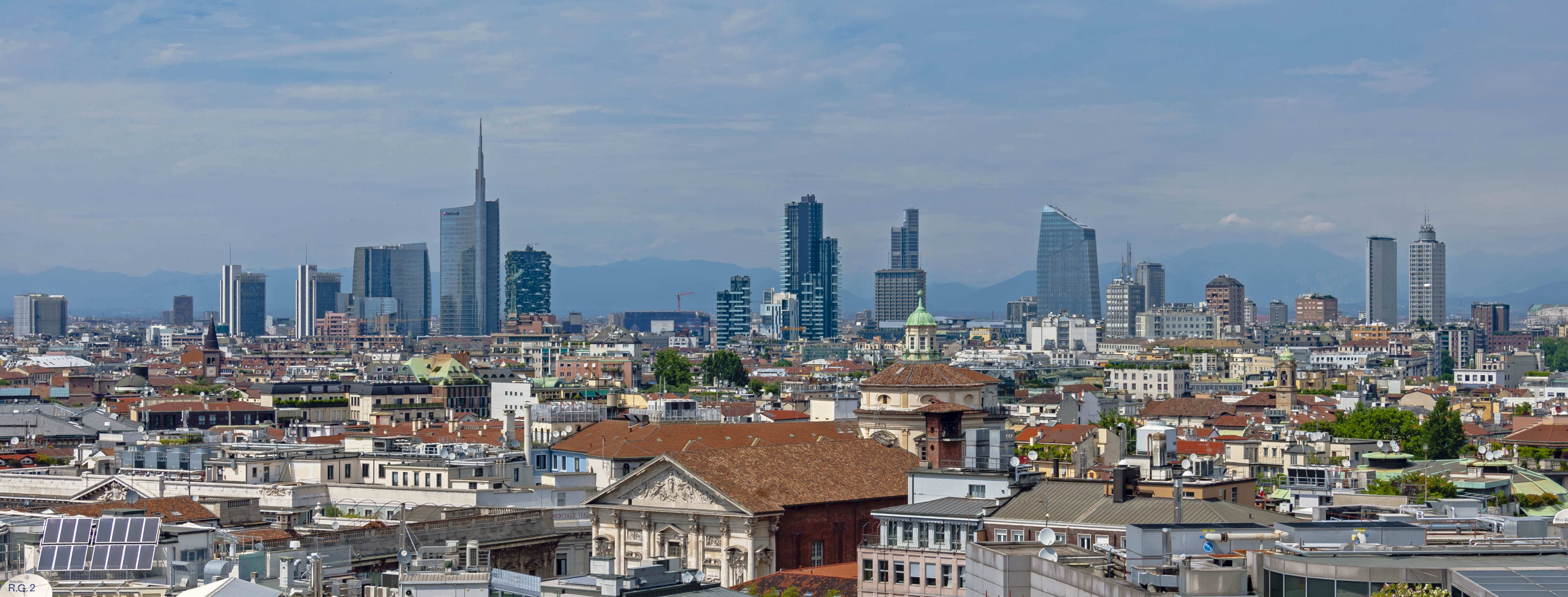 A wide view of the Milan skyline, with accompanying cityscape, from the roof of the Duomo